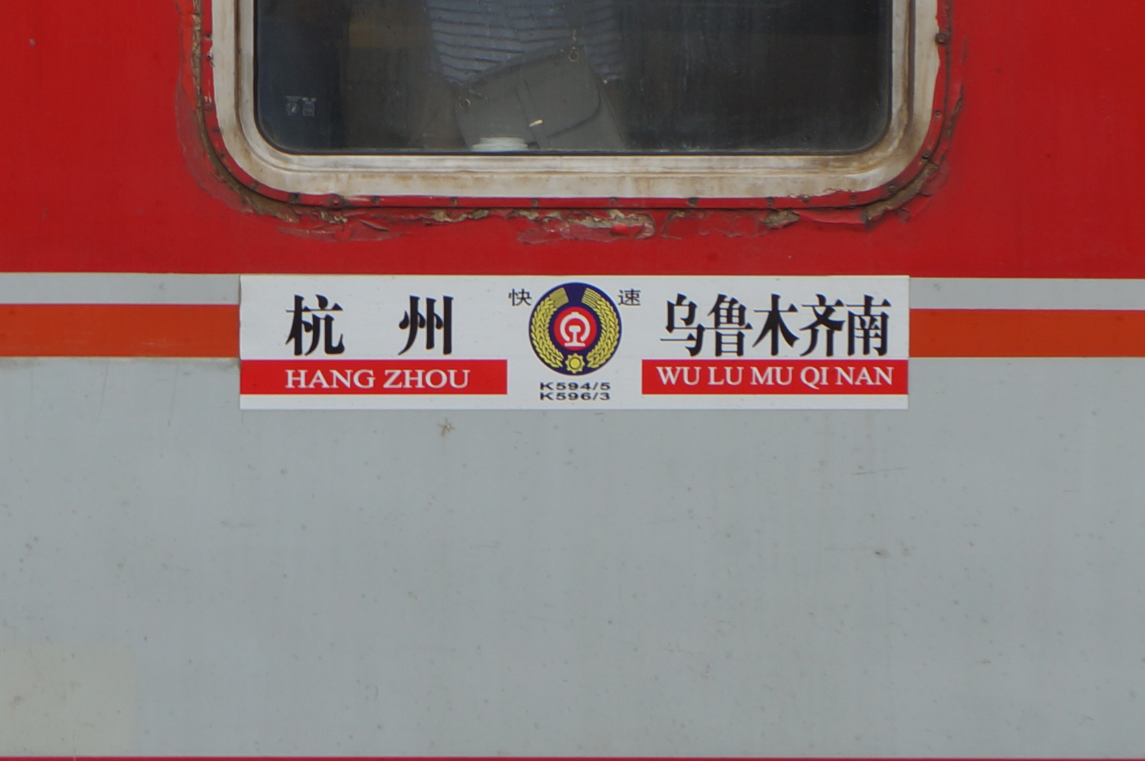 K593 4 5 6 info board in 201606